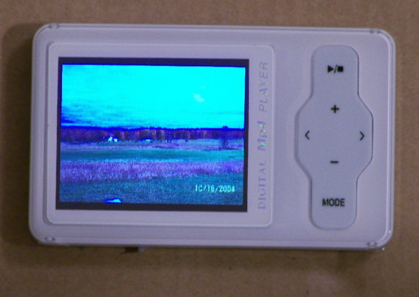 Chinese MP4/MTV Player I photographed this item myself. It is my photo.